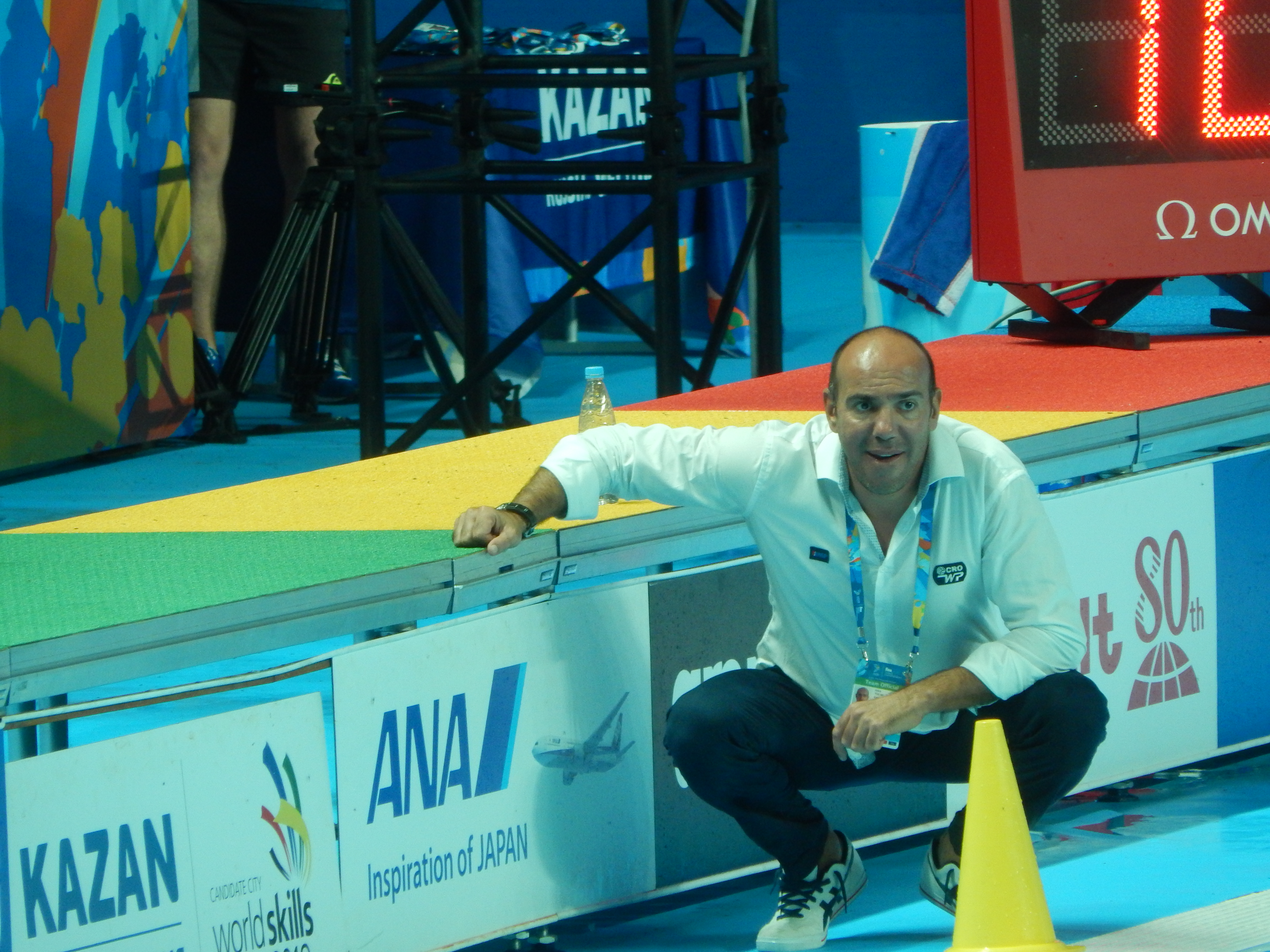 The gold medal match between Team Serbia and Team Croatia and the victory ceremony. All photos have been taken from the photographers sector. I was simply usual visitor but my ticket was to non-existent seats, therefore I was moved to that sector. All good photos I upload to WikiCommons for free use.